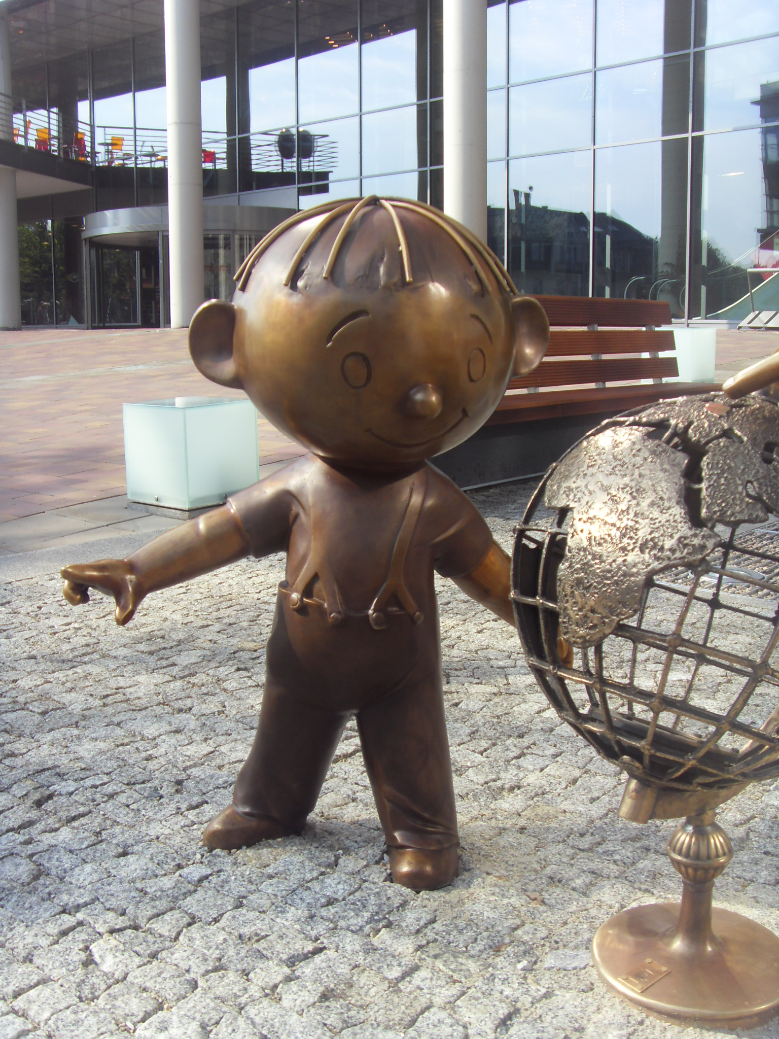 Bolek and Lolek monument in Bielsko-Biała